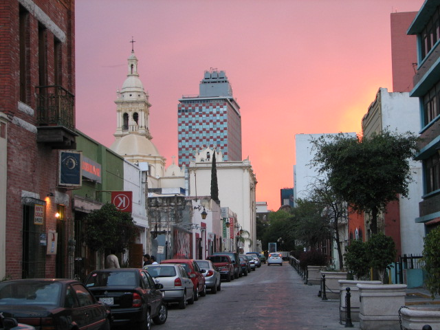 Down Town Monterrey Abasolo street.